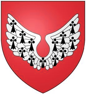 Arms of Reigny of Eggesford, Devon: Gules, a pair of wings conjoined ermine. (Source: as engraved on a bell in tower of Eggesford Church, Devon, as described by Rev. C.A. Cordale's "Notes on the Church of Eggesford", church pamphlet. (Rector of Eggesford 1960-69)